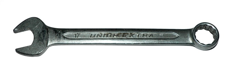 wrench